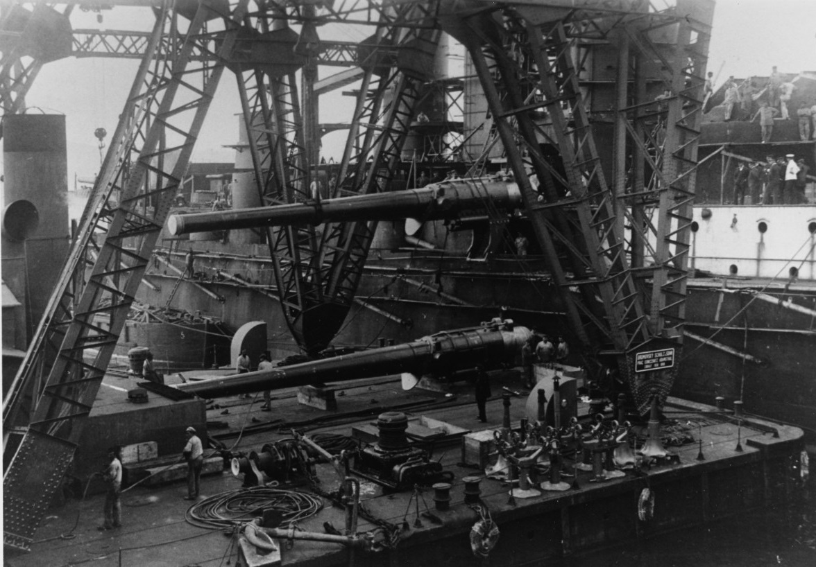 The installation of cannons in the gun turrets of SMS Viribus Unitis